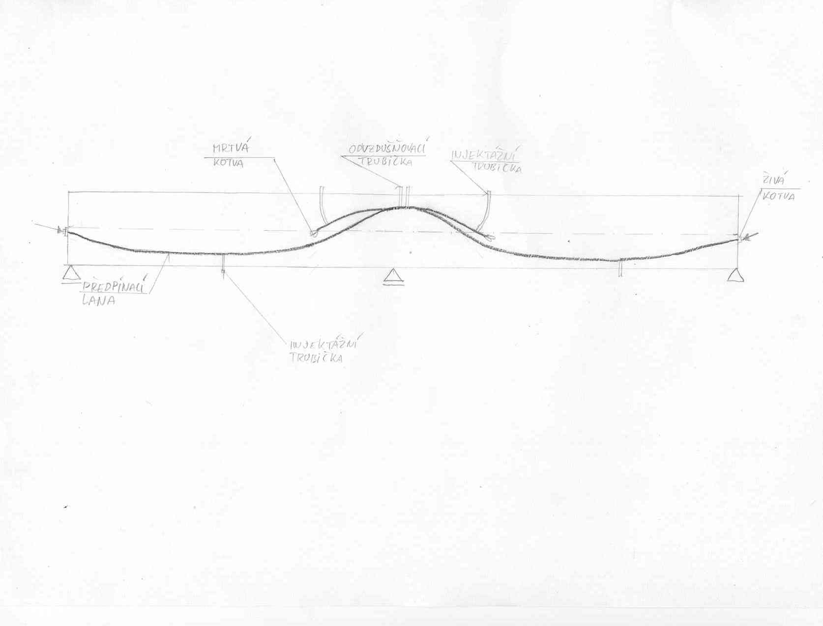 Reinforcement of continuous truss.